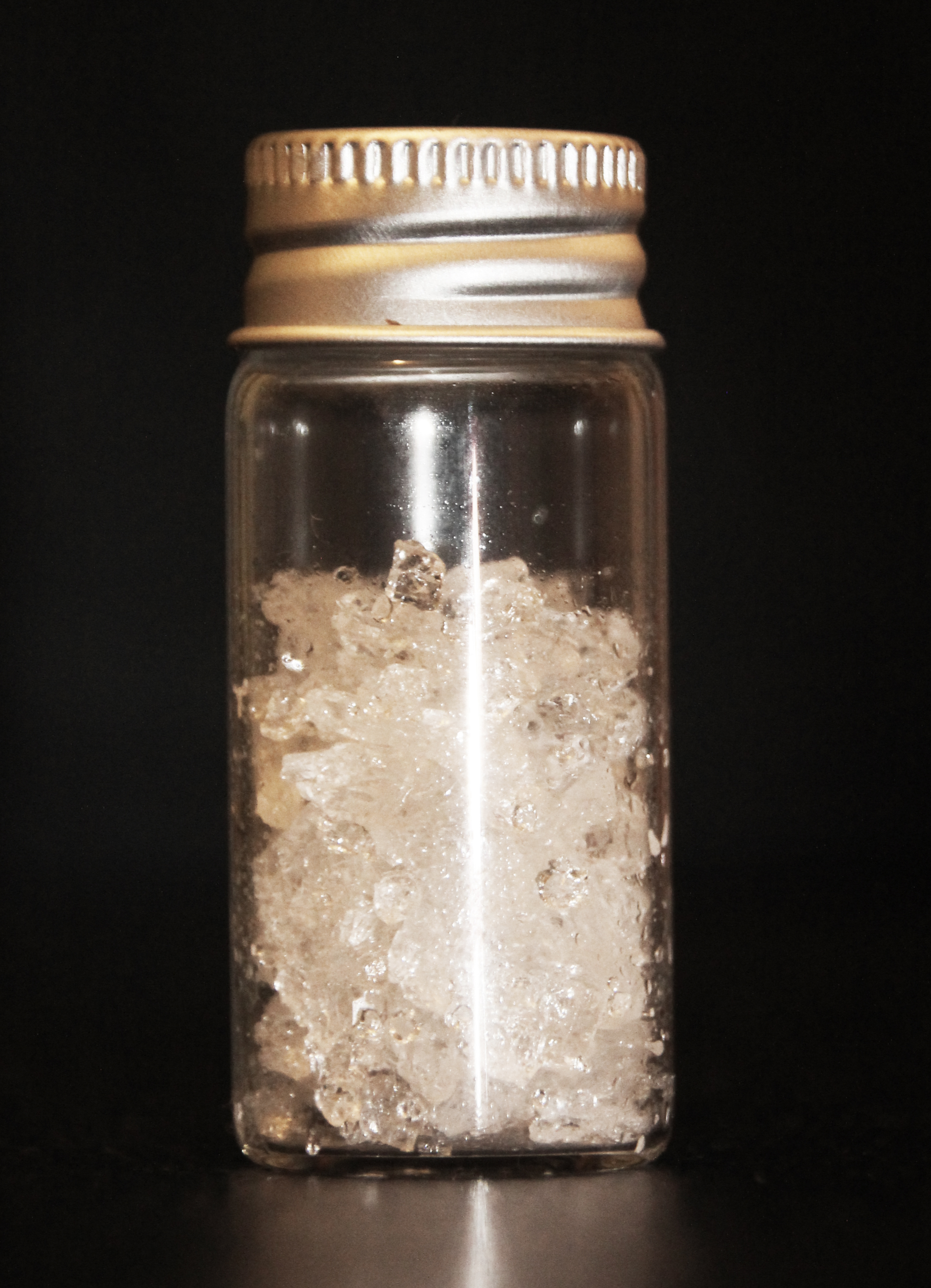 Sample of ammonium bisulfate